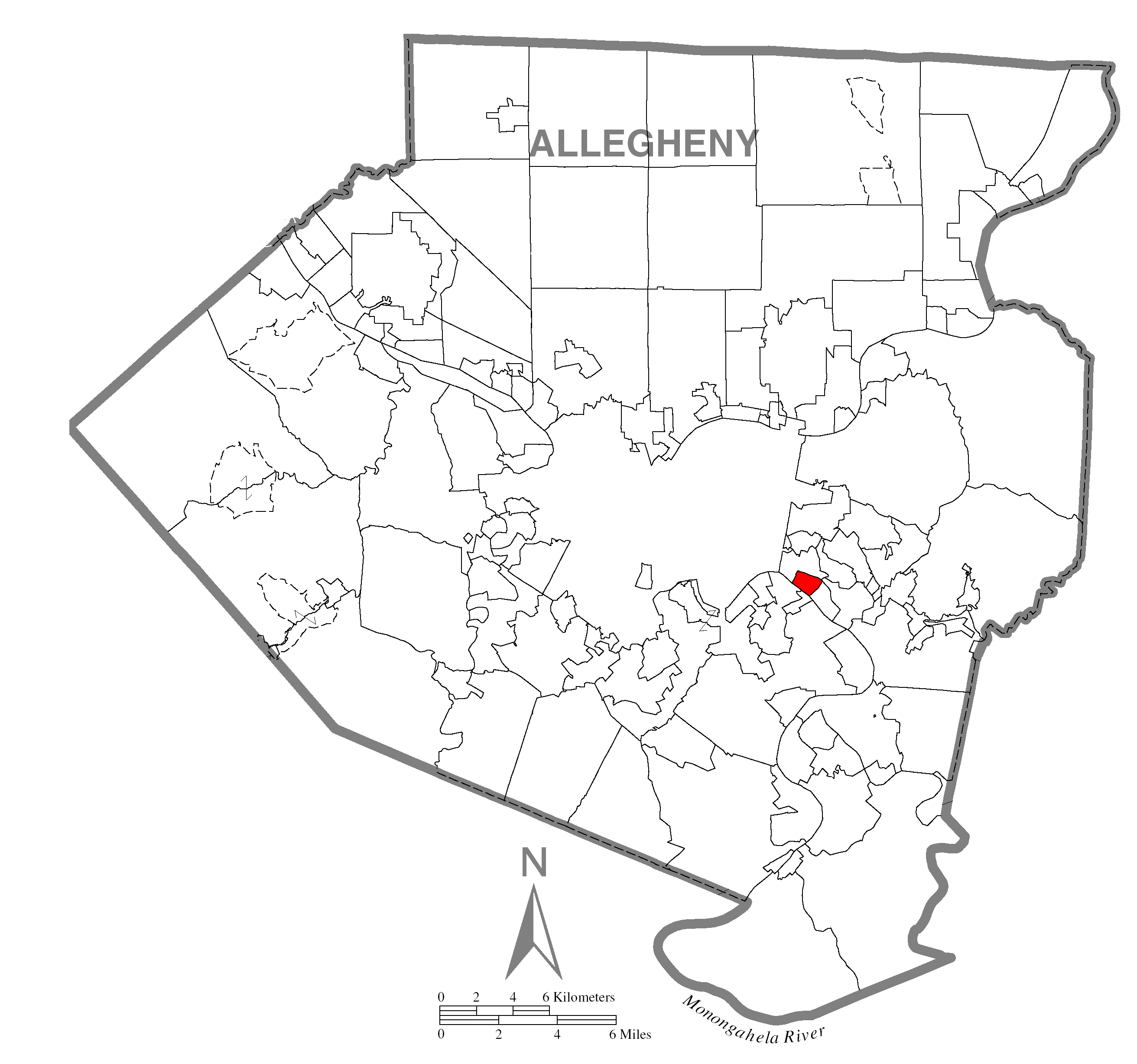 A map of Allegheny County showing Rankin, Pennsylvania (alternate) highlighted on the map.